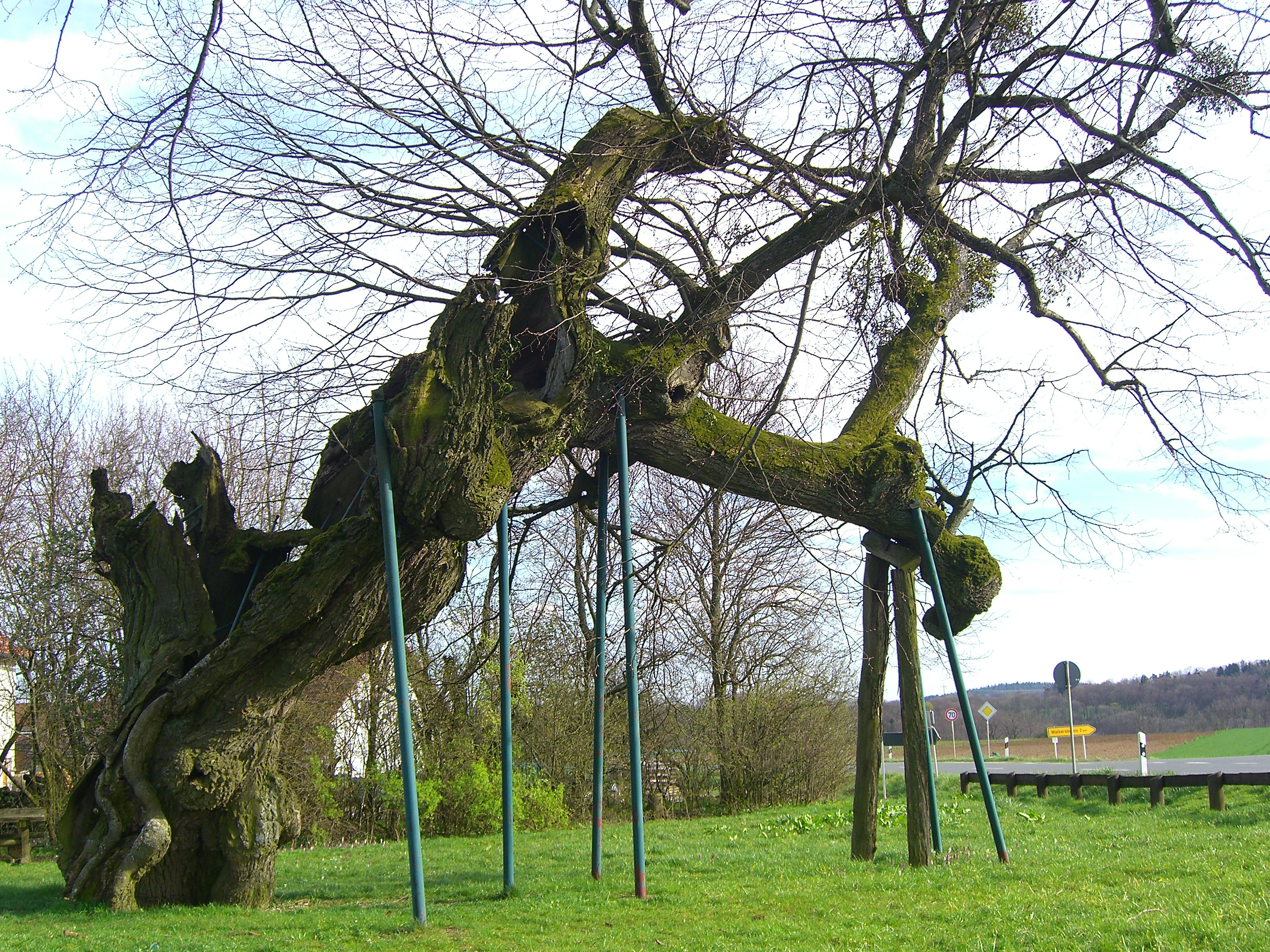 The leaveless old Kasberg lime tree (Kasberg is a small village near Gräfenberg, Germany) in spring 2007. The tree is believed to be thousand years old. The trunk is mostly rotten so the tree isn't stable on its own.